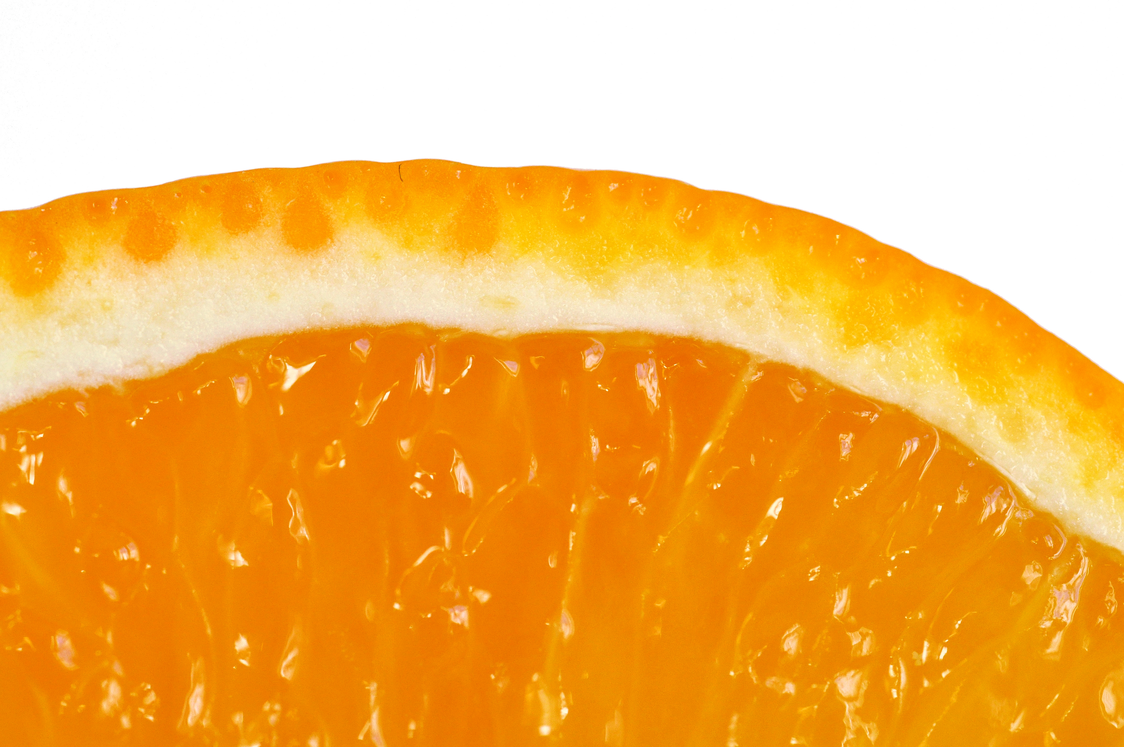 Minneola is a cross breed between manderins and grapefruits.